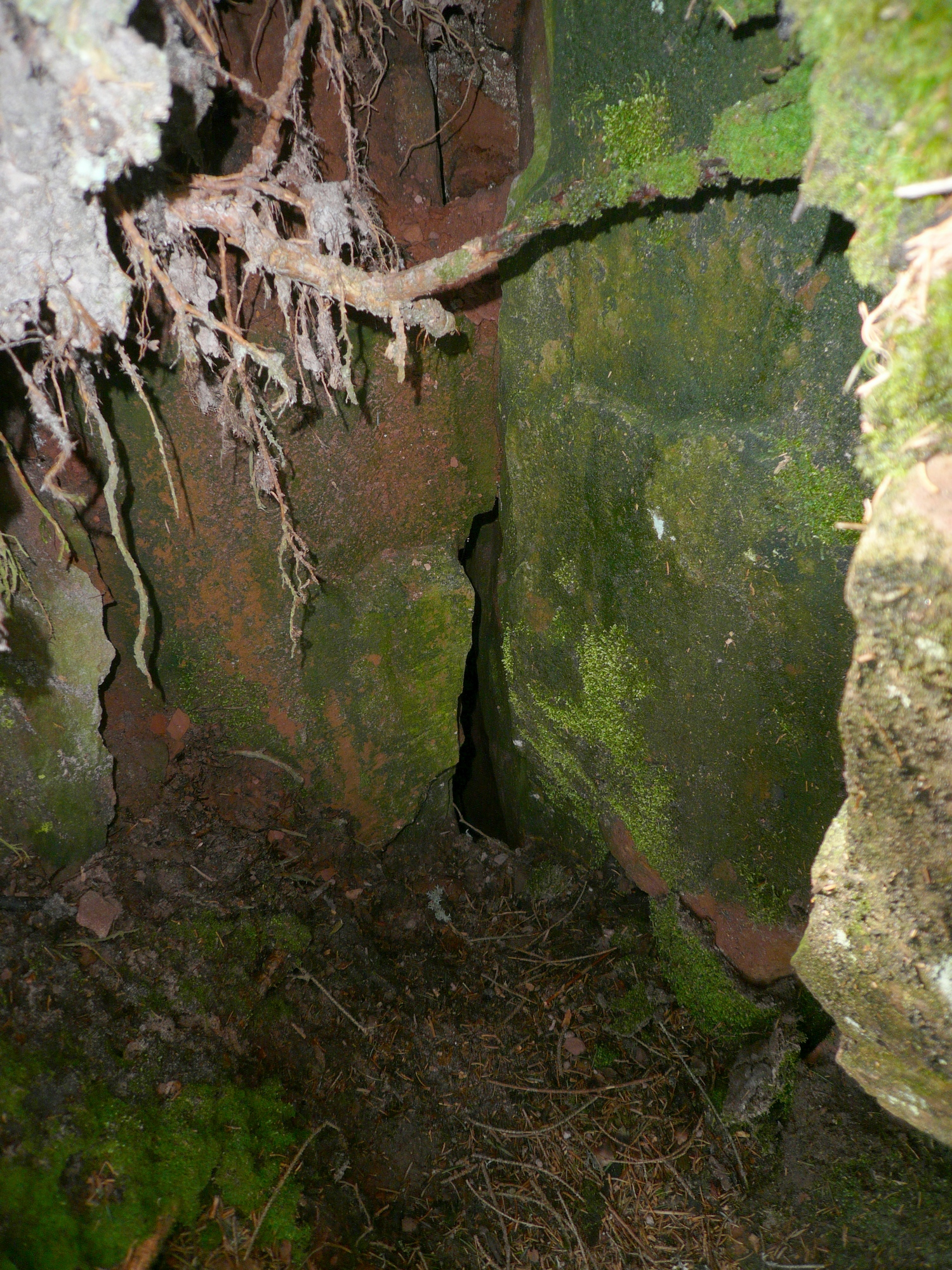 The "Teufelskamin" on the Hohe Ochsenkopf, northern Schwarzwald